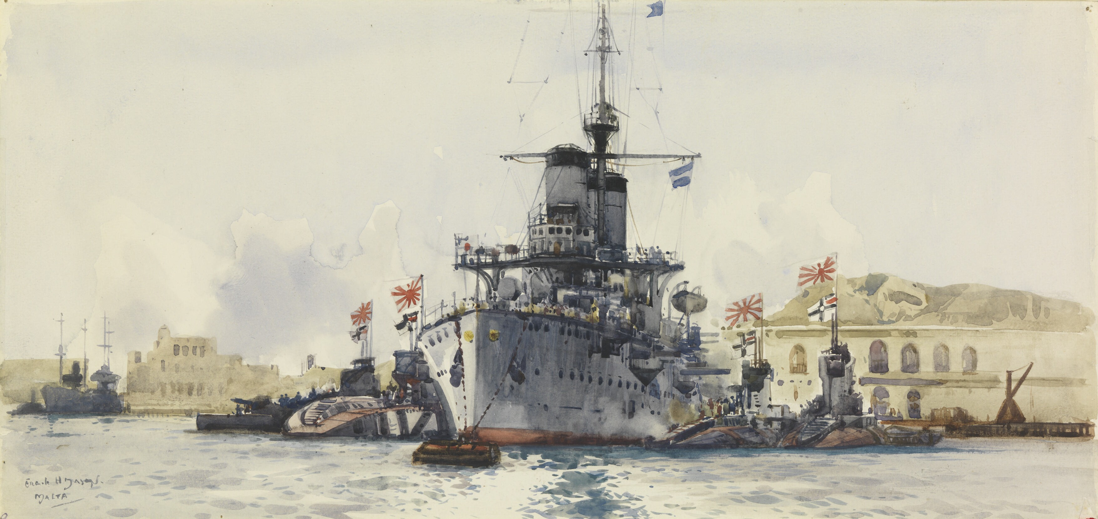 The Japanese Cruiser Nisshin with U-boats, Malta image: a bow view of a large warship, flanked by four submarines bearing Japanese flags, in a Mediterranean harbour.